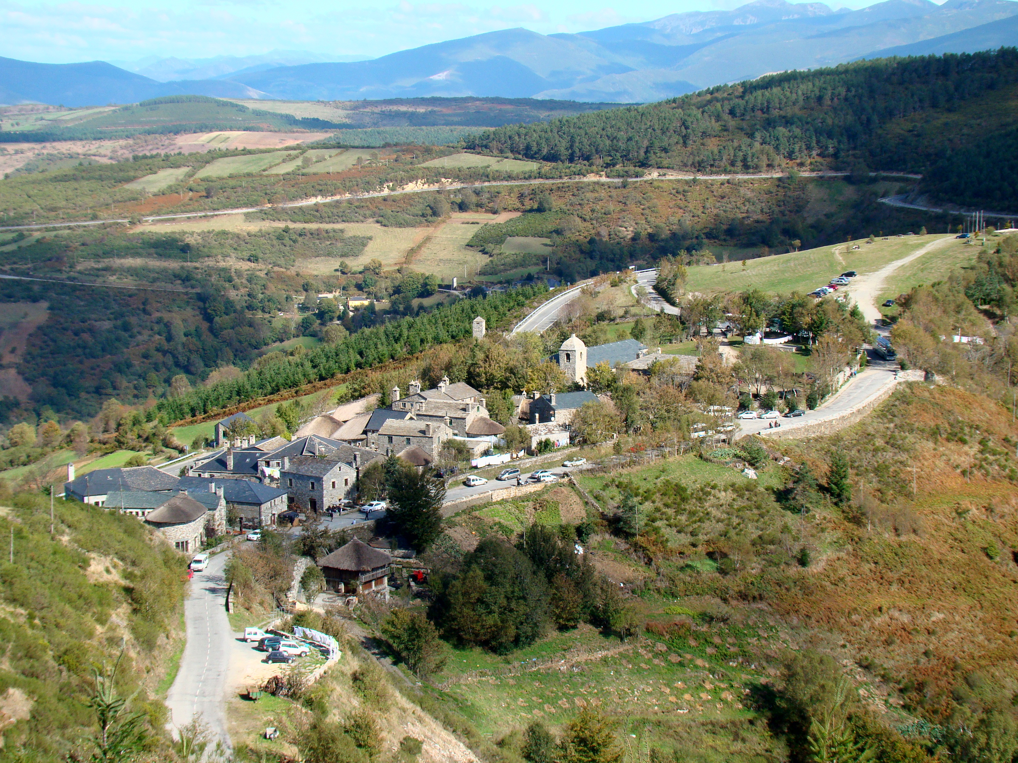 Pedrafita do Cebreiro as seen from a hill west of and above the village. The Way of Saint James enters the village near the bus leaving the parking lot in the upper right part of the photo, goes through the village and leaves it to the left near a pilgrims hostel.